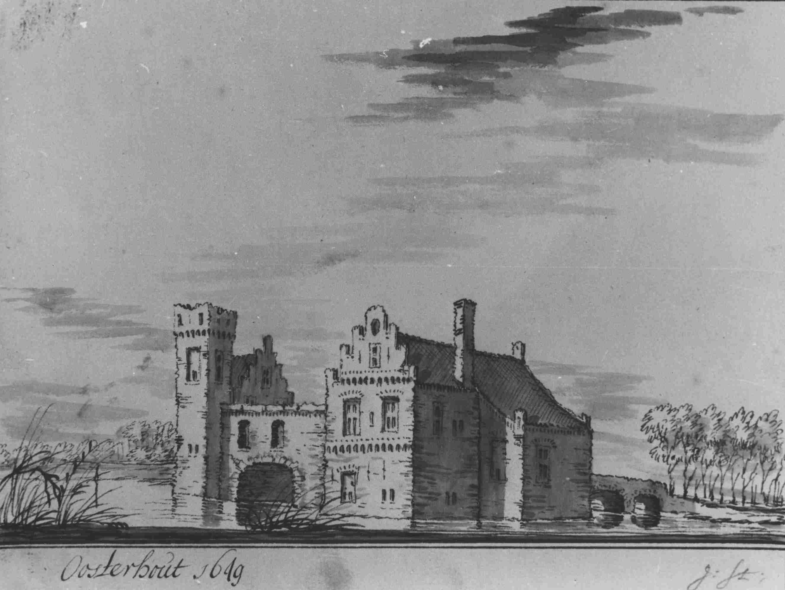 Castle Oosterhout 1649